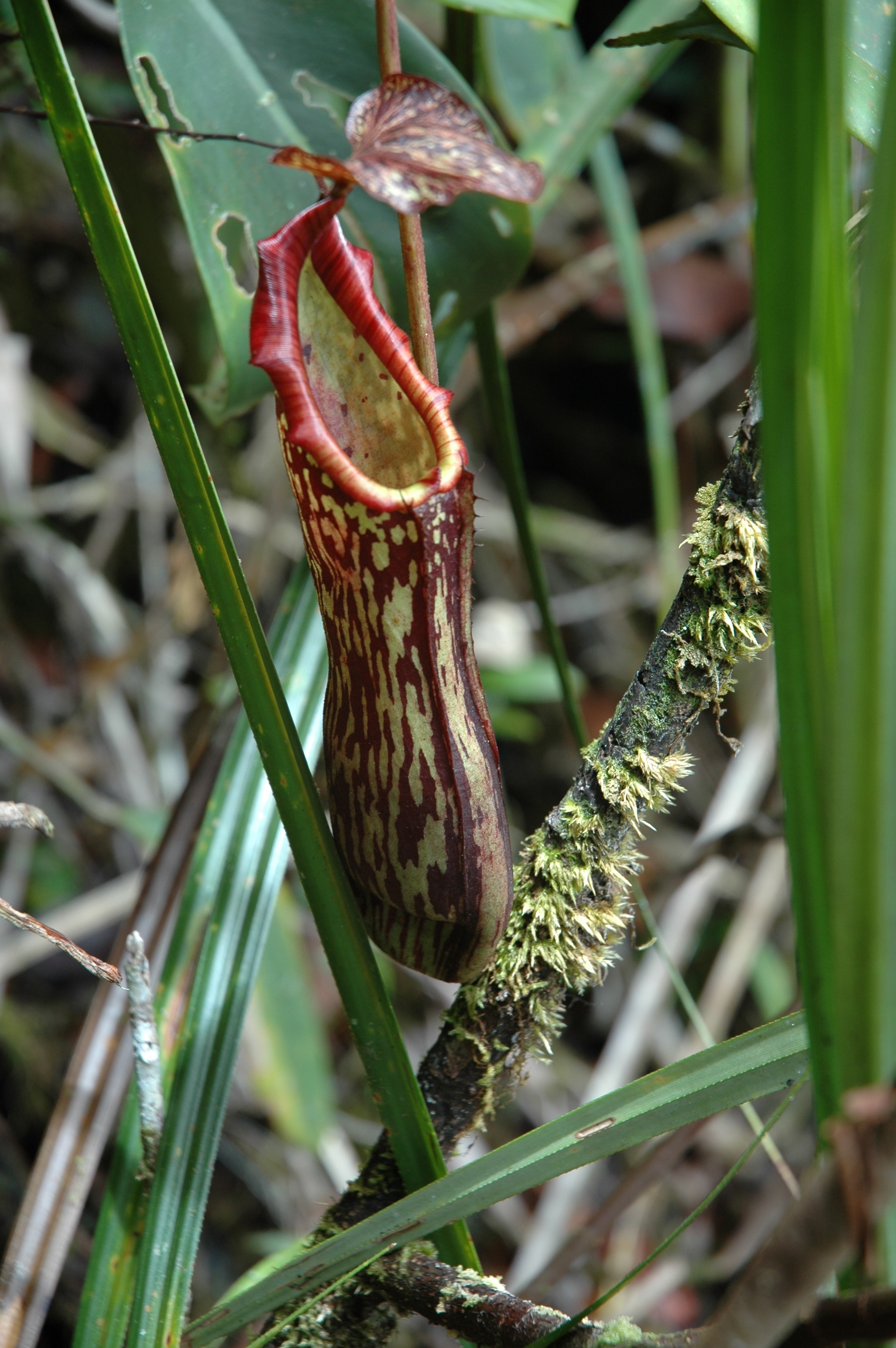 Nepenthes faizaliana Gunung Mulu Pinnacles by Jeremiah Harris